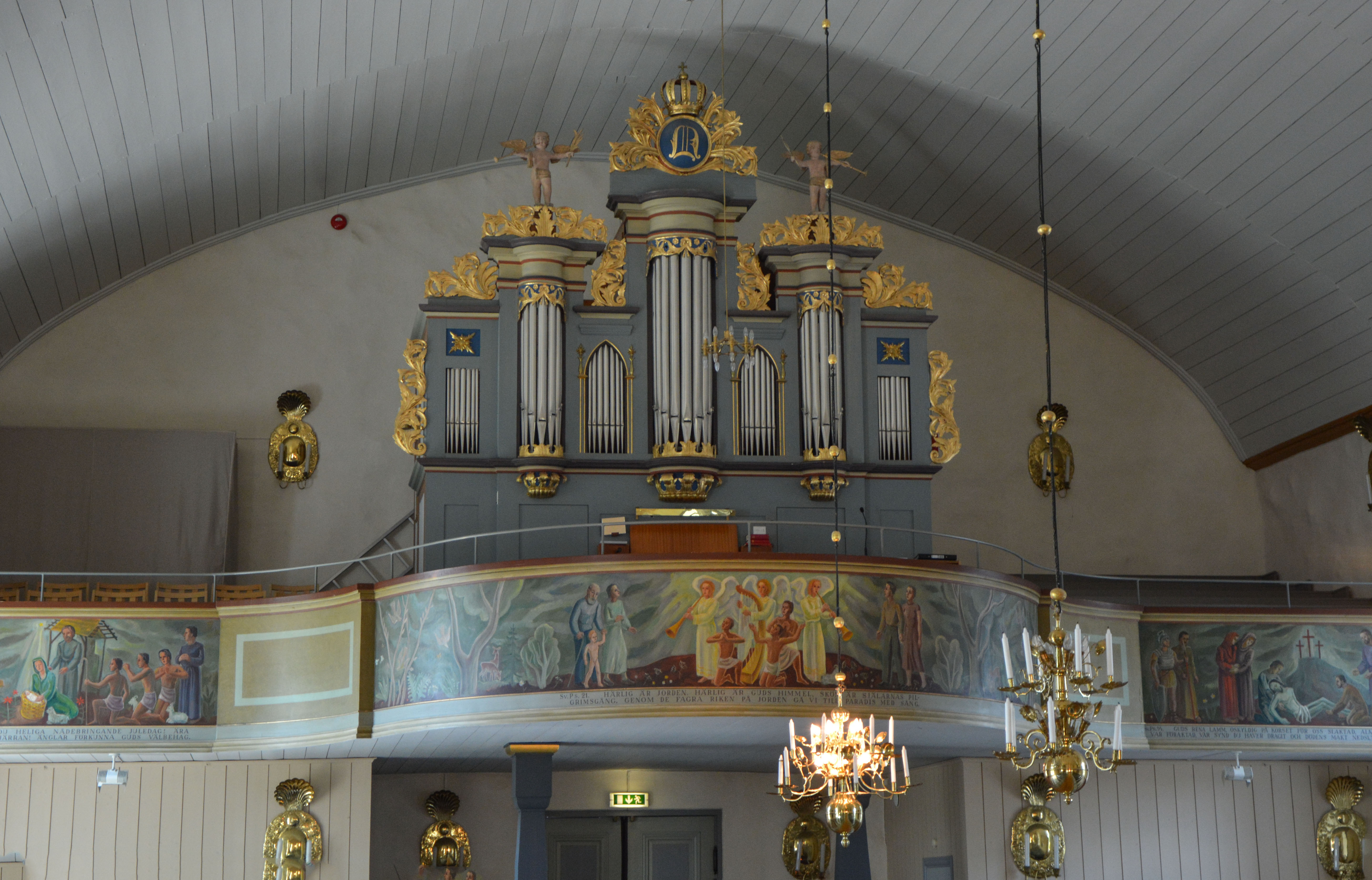 Åseda Church.The organ